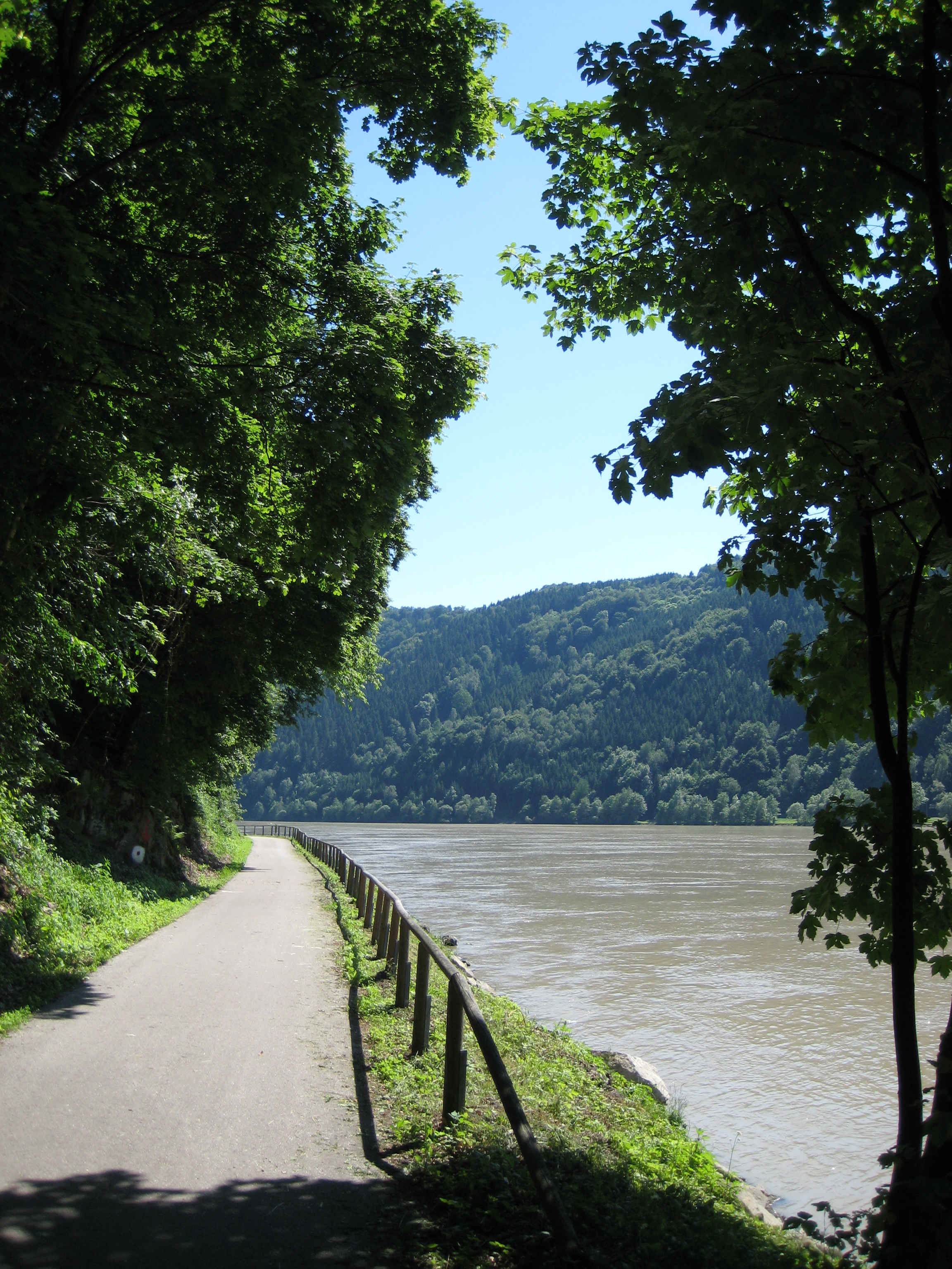 Danube Bike Trail between Schlögener Schlinge and Aschach an der Donau